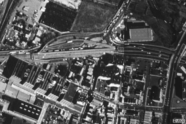 Aerial image of Tonnelle Circle, an intersection in Jersey City, New Jersey, United States